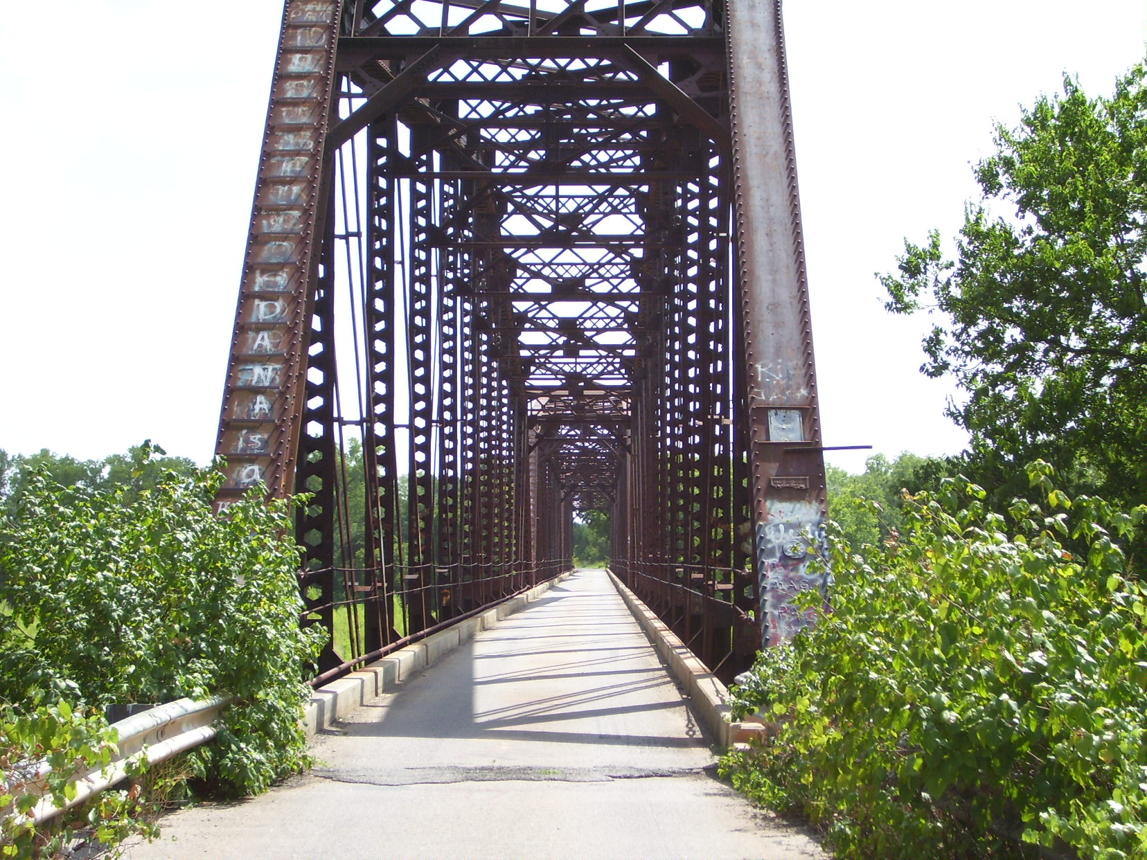 The Wanette-Byars Bridge from the Pottawatomie County (Wanette) side.